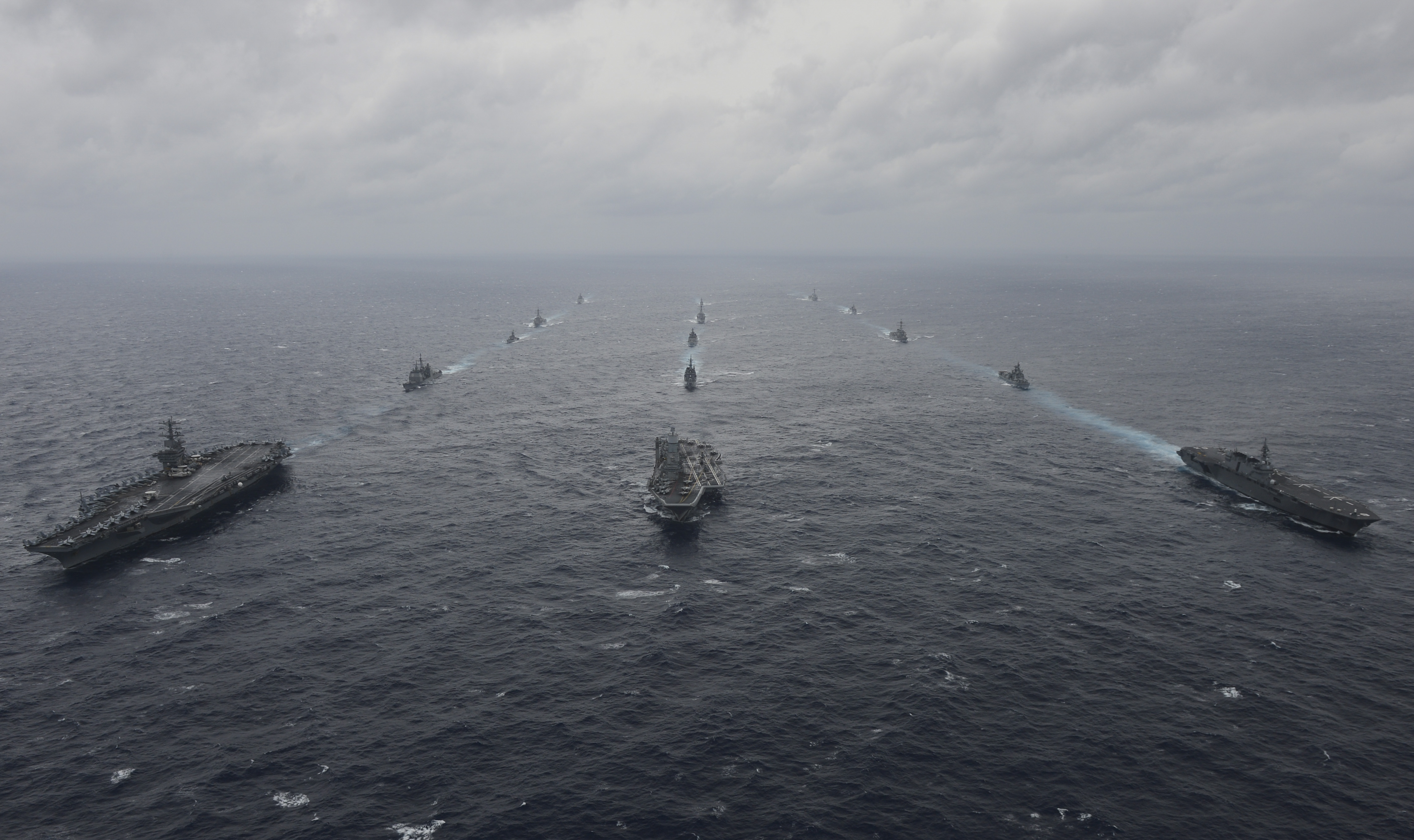 170717-N-JH929-821 BAY OF BENGAL (July 17, 2017) Ships from the Indian navy, Japan Maritime Self-Defense Force (JMSDF) and the U.S. Navy sail in formation in the Bay of Bengal during exercise Malabar 2017. Leading the formation are U.S Navy aircraft carrier USS Nimitz (left), Indian Navy aircraft carrier INS Vikramaditya (middle) and a Japan Maritime Self-Defense Force (JMSDF) ship (right). Malabar 2017 is the latest in a continuing series of exercises between the Indian navy, JMSDF and U.S. Navy that has grown in scope and complexity over the years to address the variety of shared threats to maritime security in the Indo-Asia-Pacific region. (U.S. Navy photo by Mass Communication Specialist 3rd Class Cole Schroeder/Released)